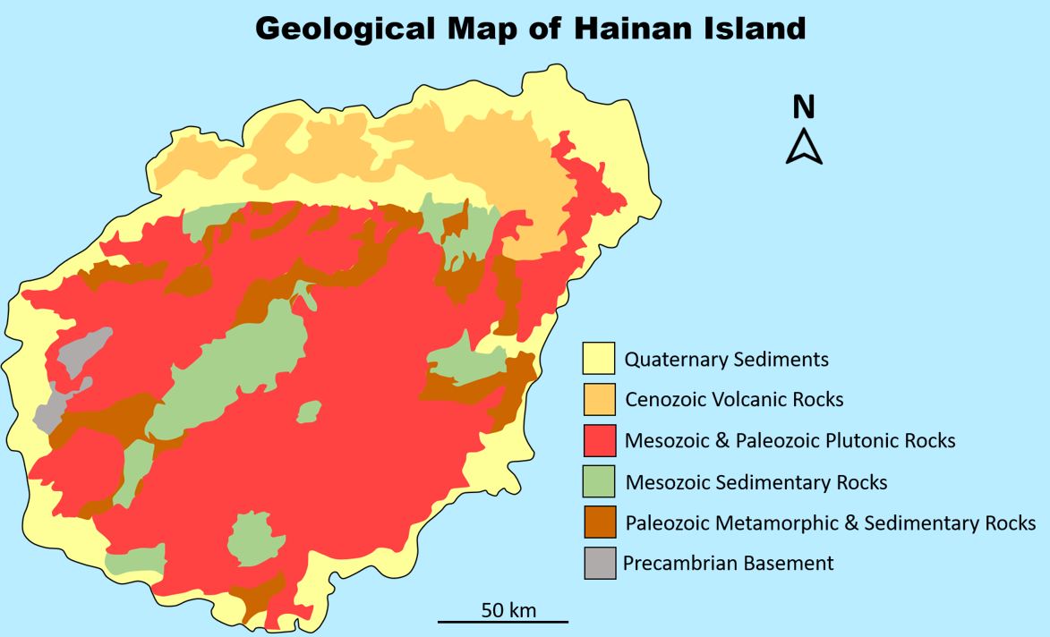 Simplified Geological Map for Hainan Island